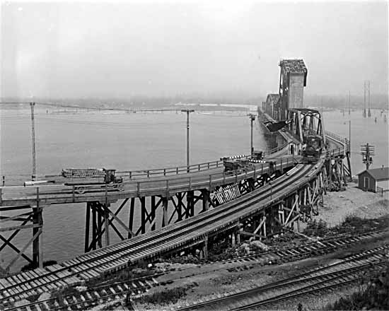 First train over Second Narrows Bridge, automobiles and truck loaded with lumber